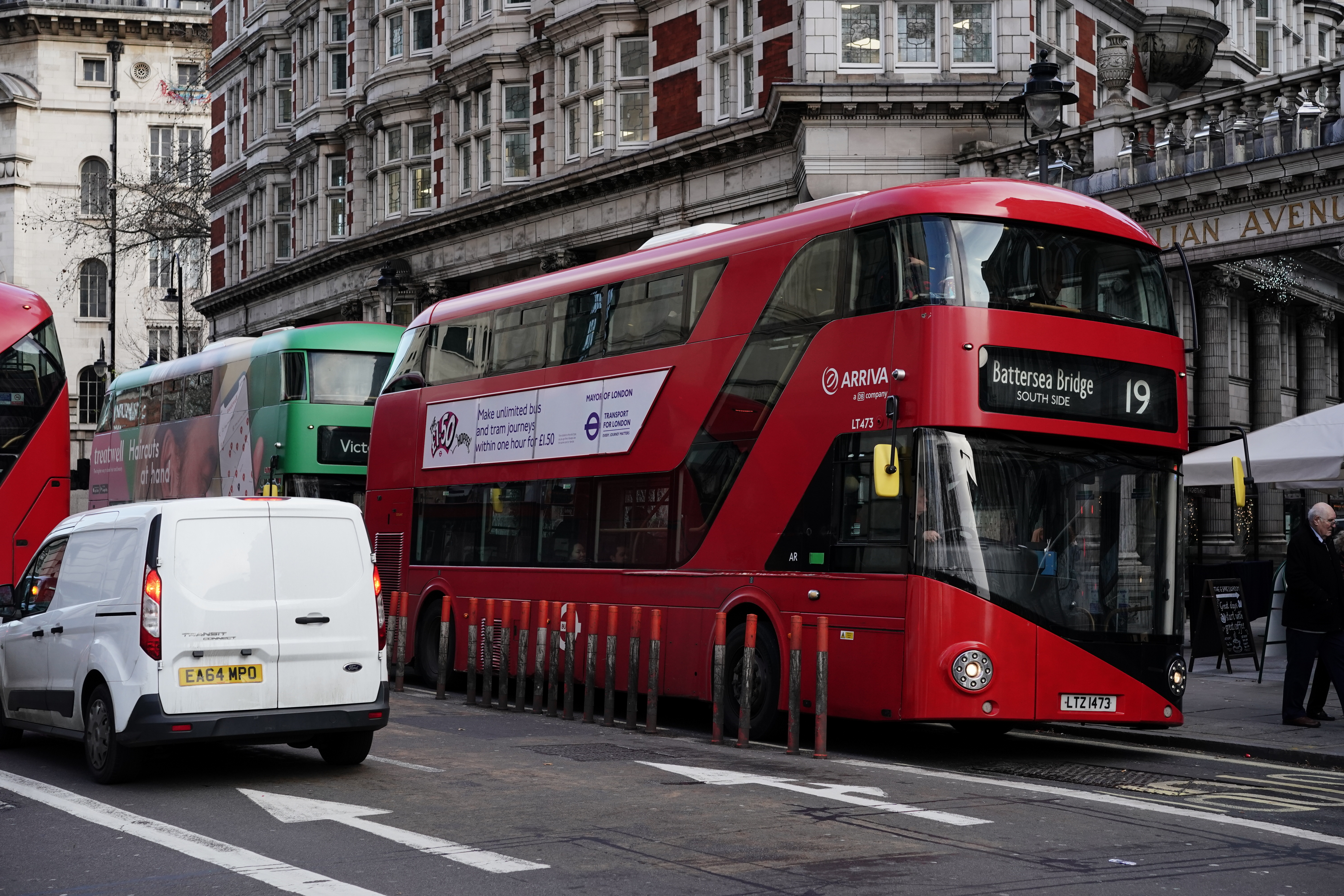 Arriva London New Routemaster on Bloomsbury Way in December 2019